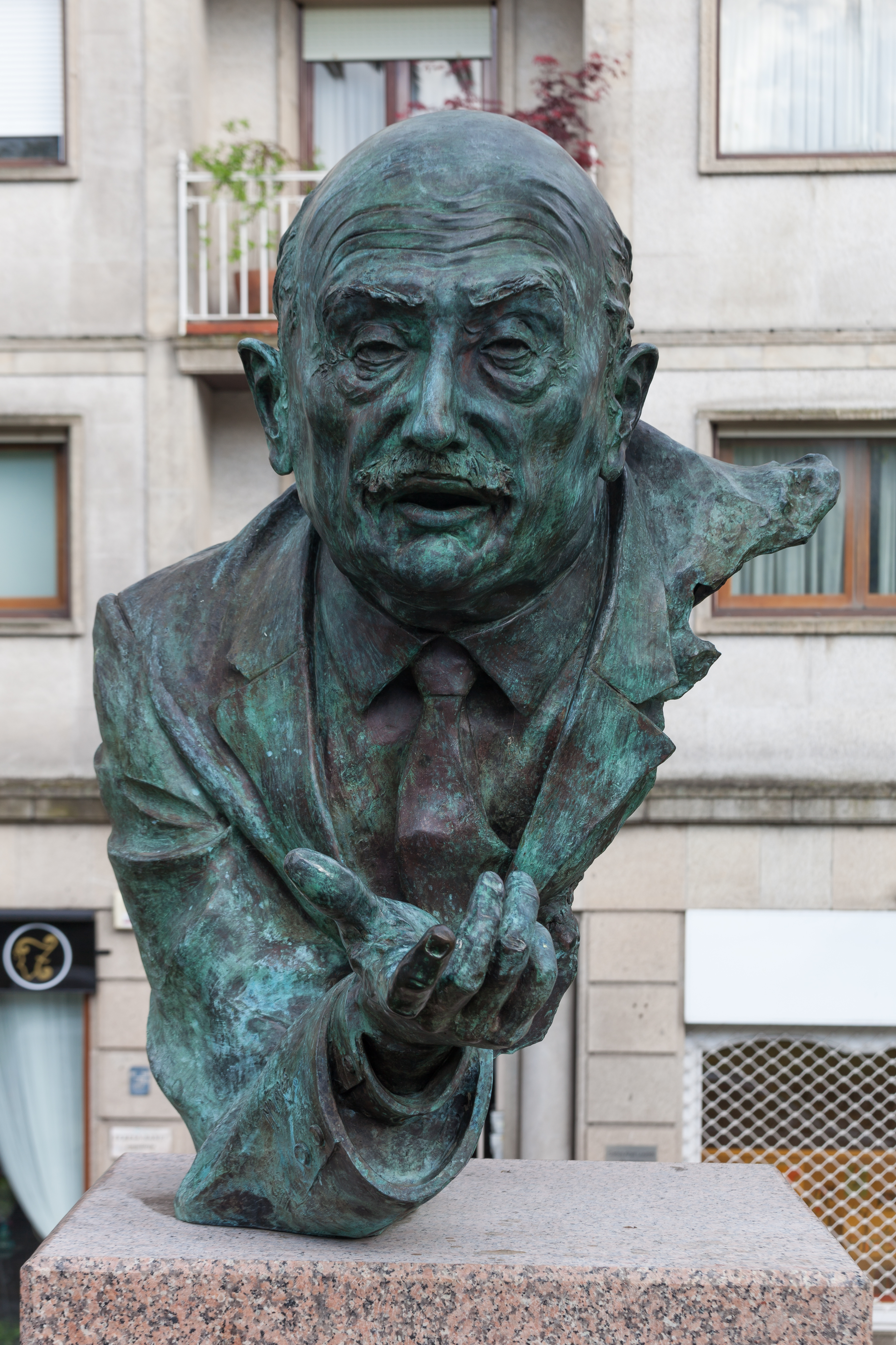 Ricardo Carballo Calero by José Molares, Santiago de Compostela, Galicia (Spain)